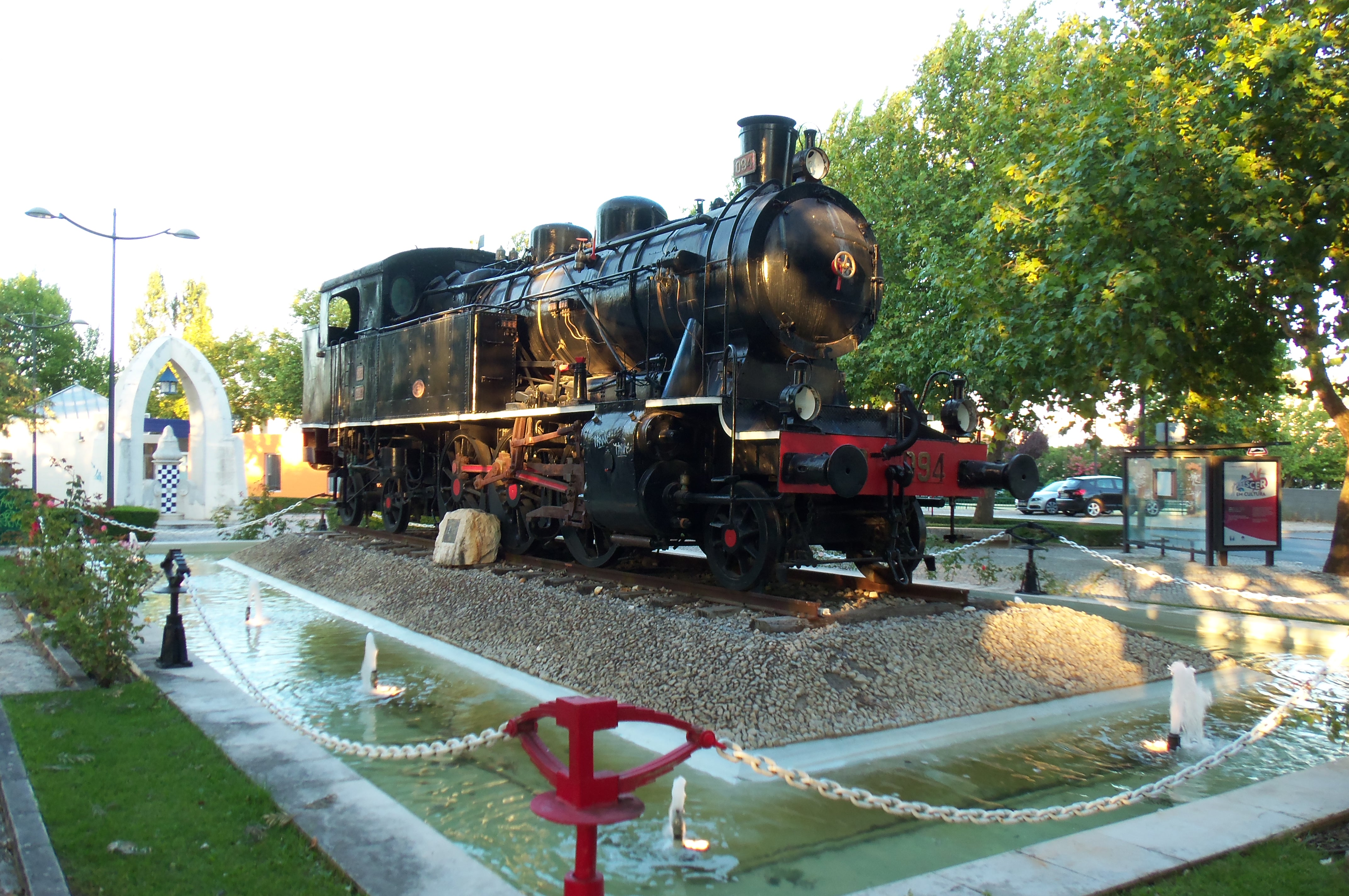 The only example of historic train that is the city of Entroncamento off the train lines and space museum.